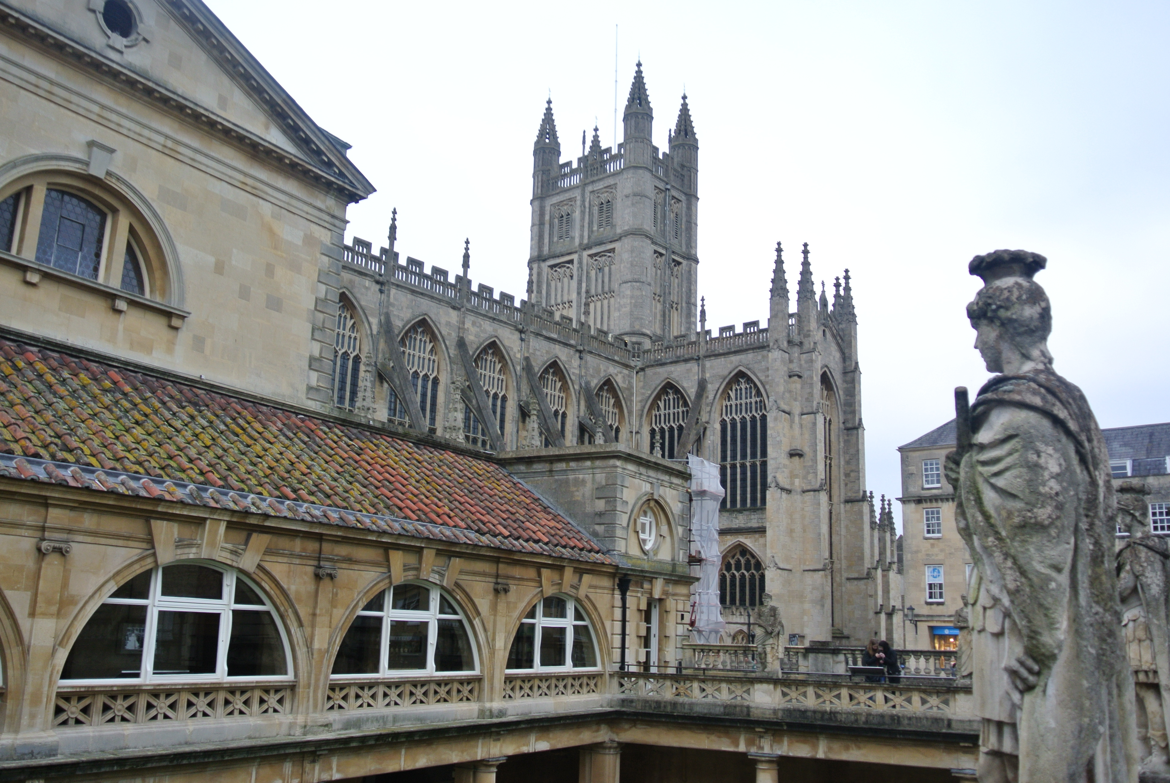 Roman Baths & Bath Abbey